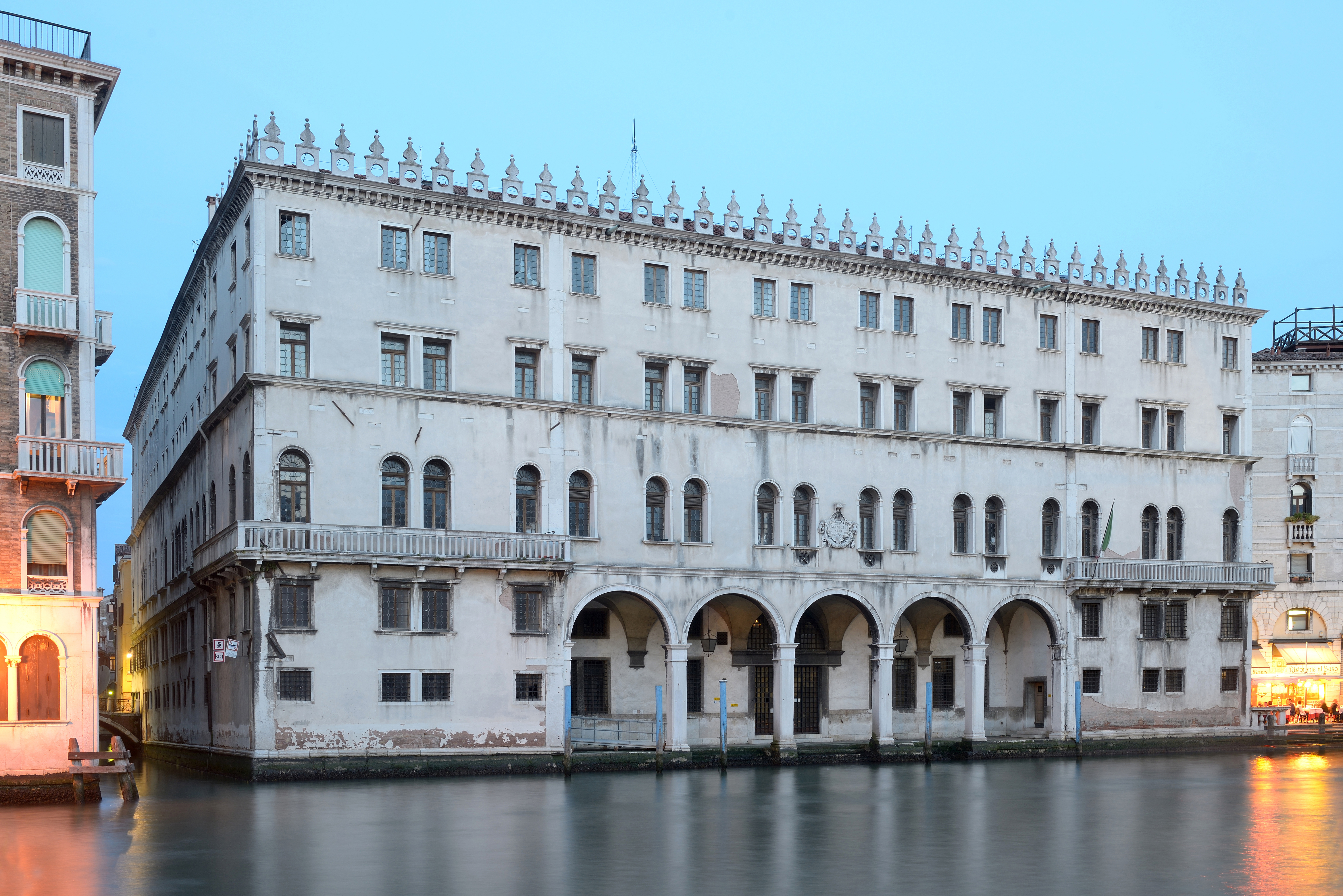 Fondaco dei Tedeschi at night in Venice.